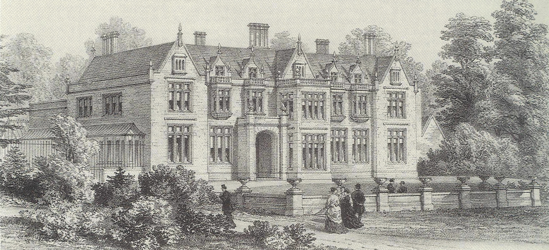 Elmhurst Hall, View from the East in 1874